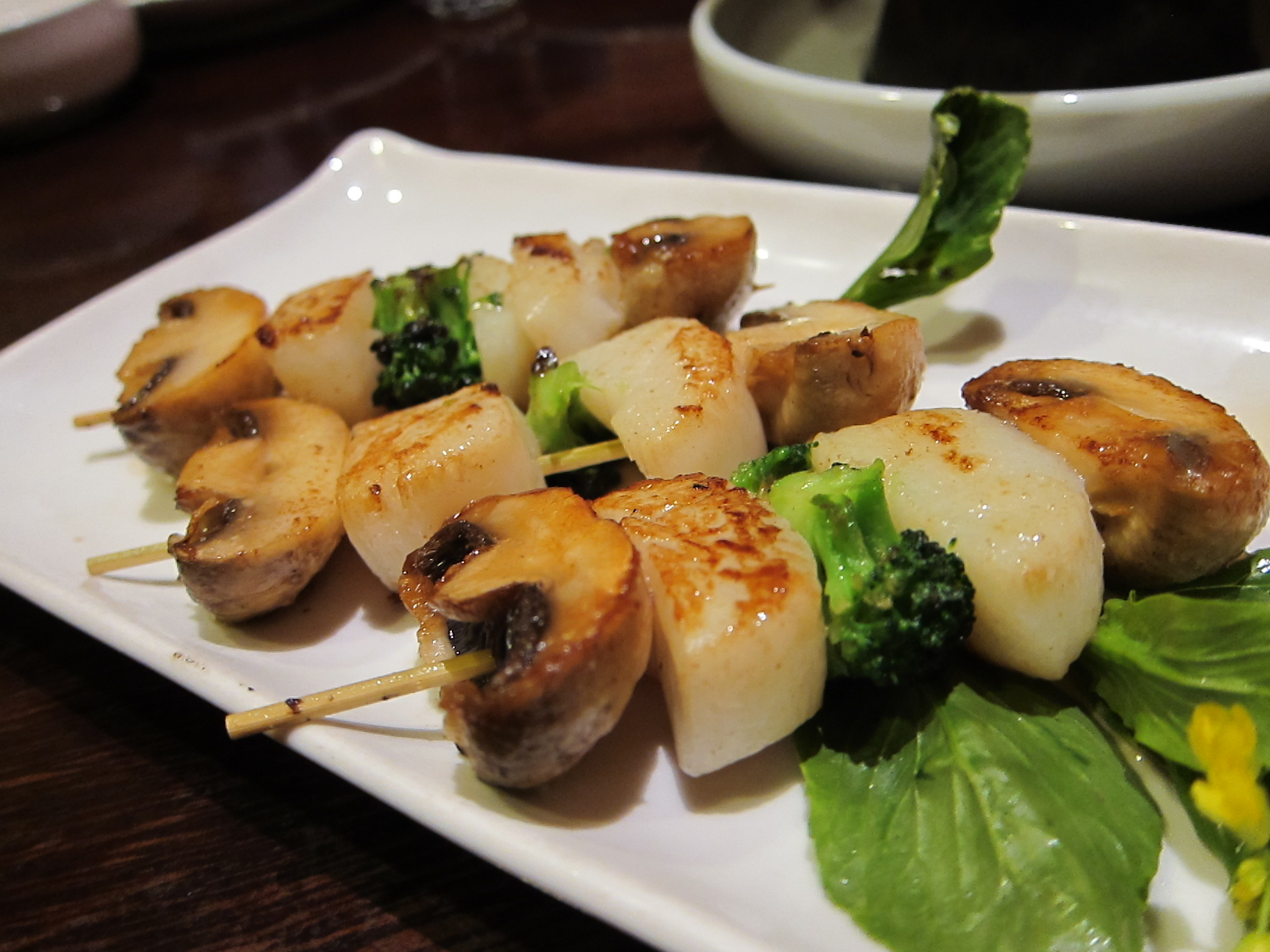 Paeju-sanjeok (scallop skewers)